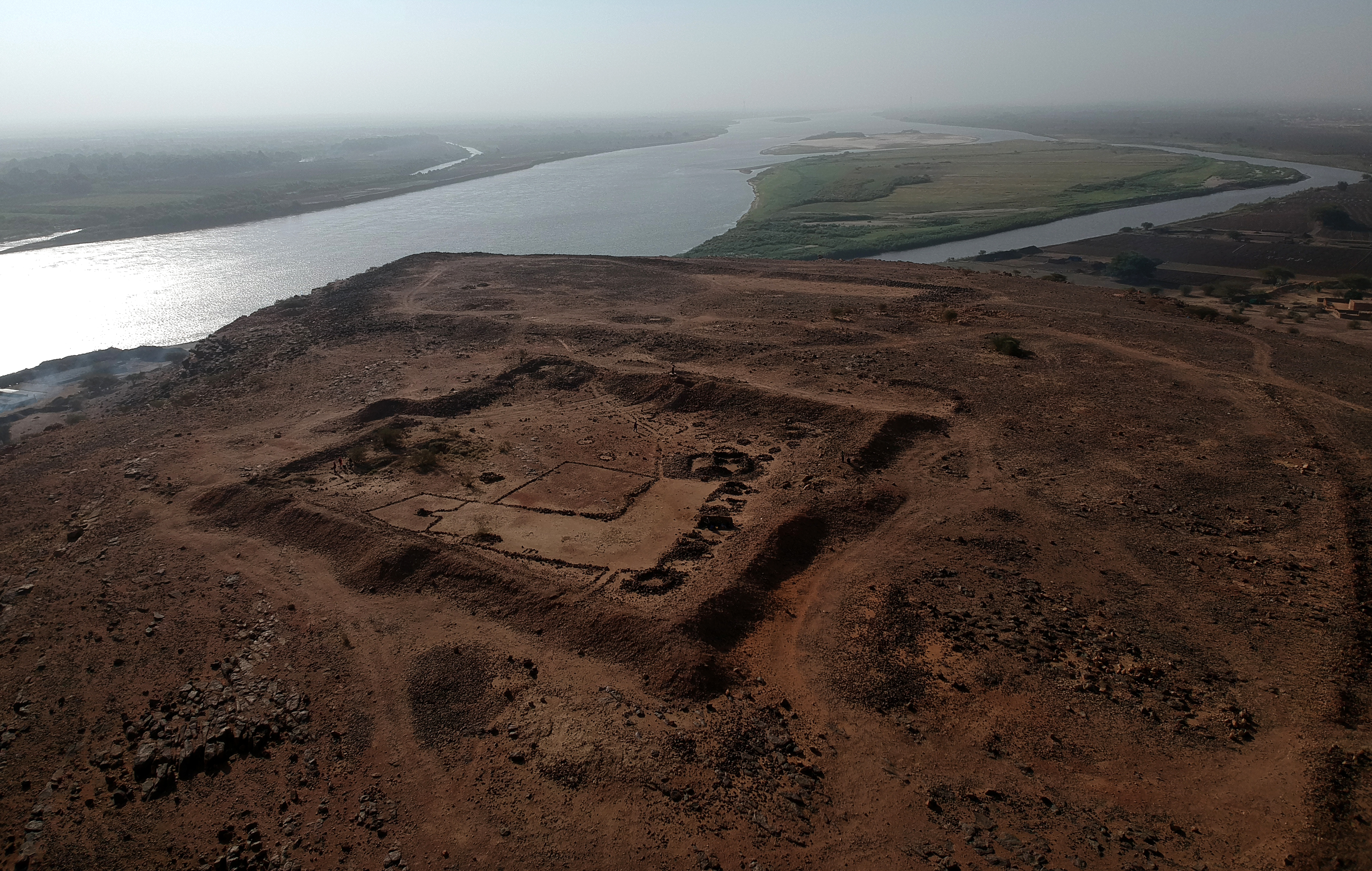 Well-preserved remains of a stone-built fort with the corner and midway bastions. The only gate is visible from the riverside. All structures and buildings inside the fort are modern (20th and 21st century). The ruins are used by local Sufi brotherhood (Tarika Tayibiyya) in their mystic rituals.